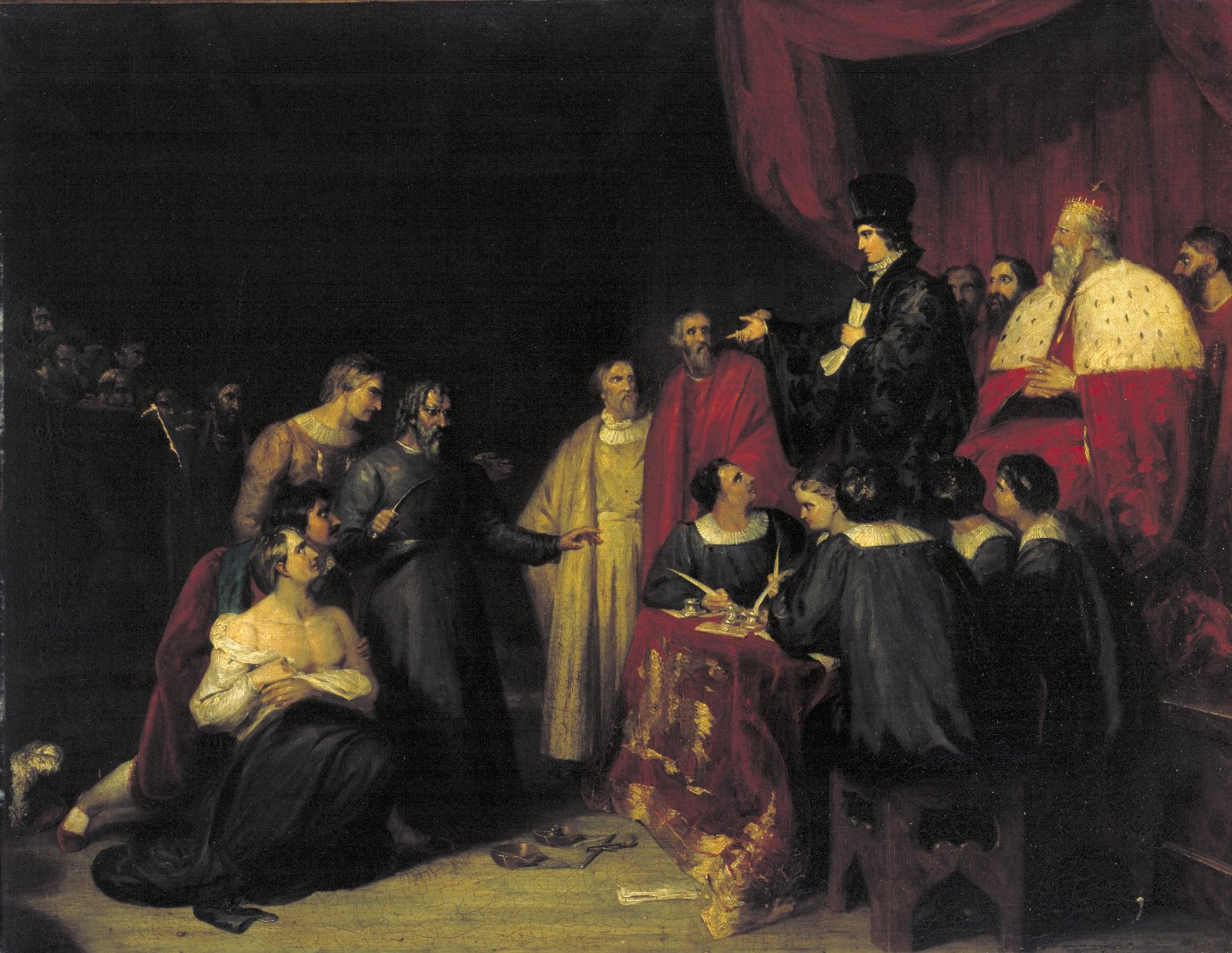 From Act IV, Scene 1 of William Shakespeare's The Merchant of Venice